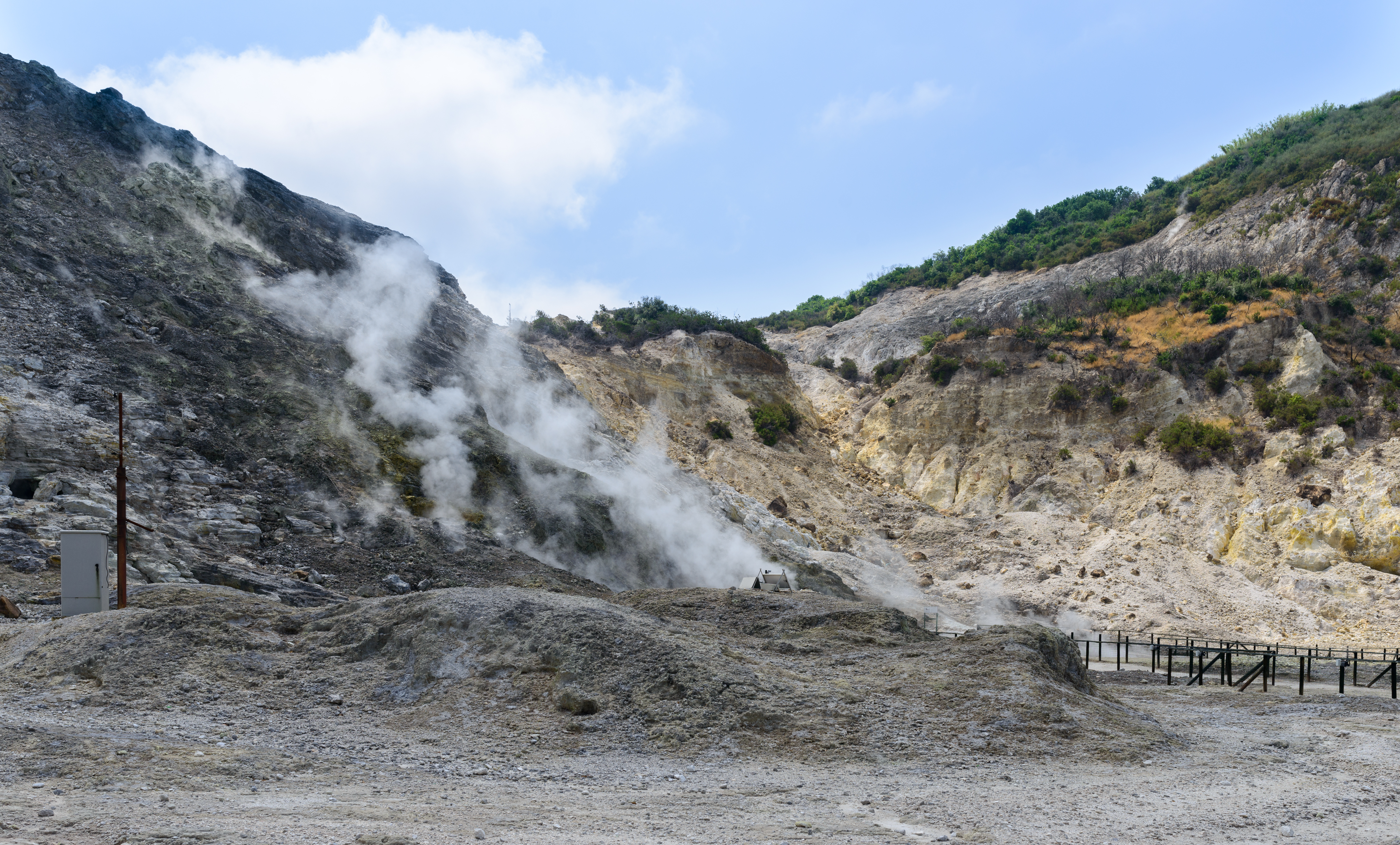 Fumarole, Solfatara (Pozzuoli), Campi Flegrei, Campania, Italy.